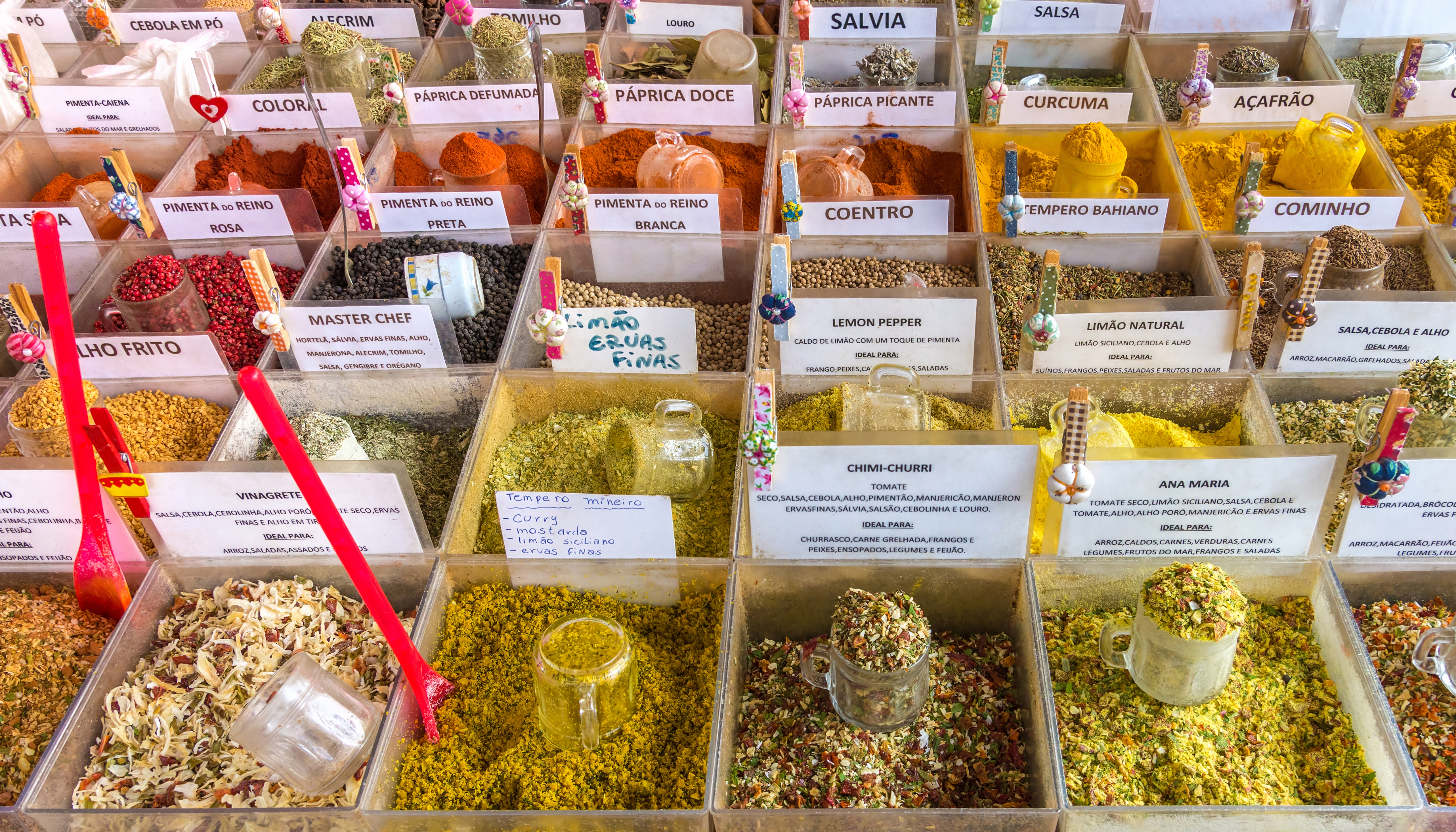 Brazilian spices at a weekend flea market along the street Carneiro da Cunha, in Saúde, São Paulo, Brazil